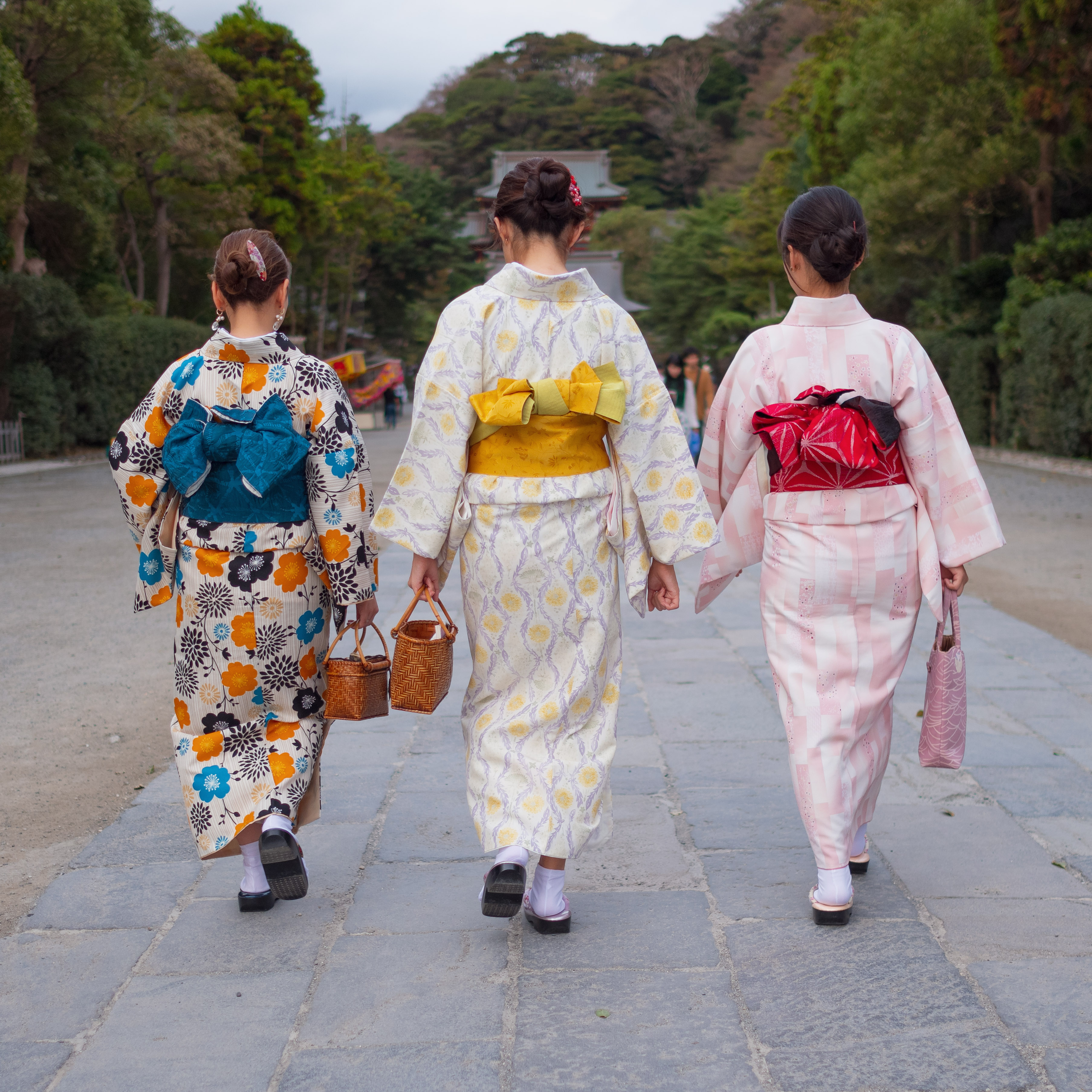 Three Ladies in Kimonos, in Tsurugaoka Hachimangū Shrine, Kamakura, Kanagawa prefecture, Japan.